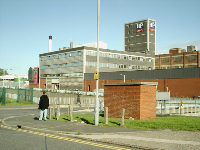 The HP Sauce factory Photograph take from Thomas Street looking across the Aston Expressway to the HP Sauce factory.